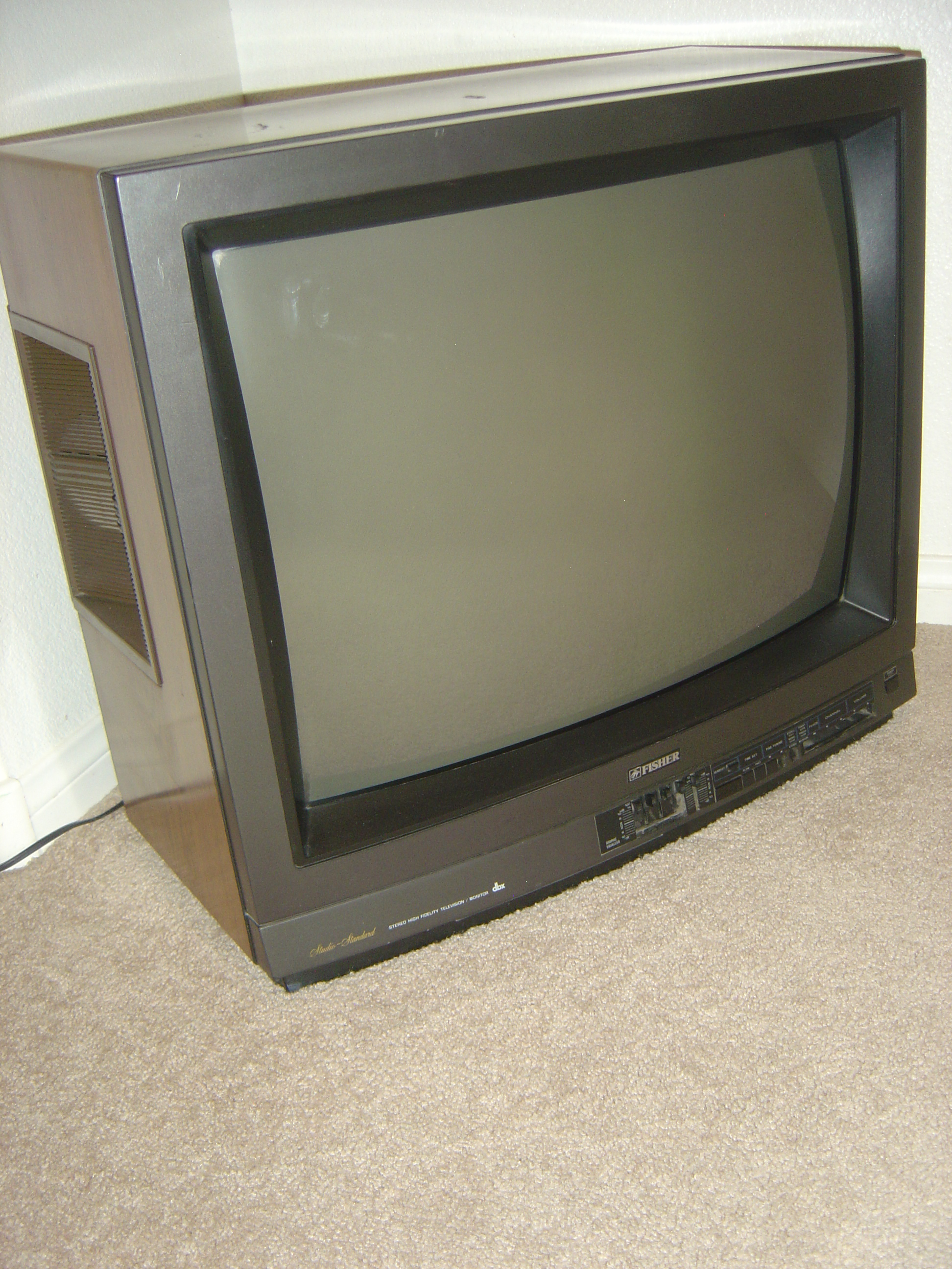 Fisher television, model PC-367WS, manufactured December 1987.